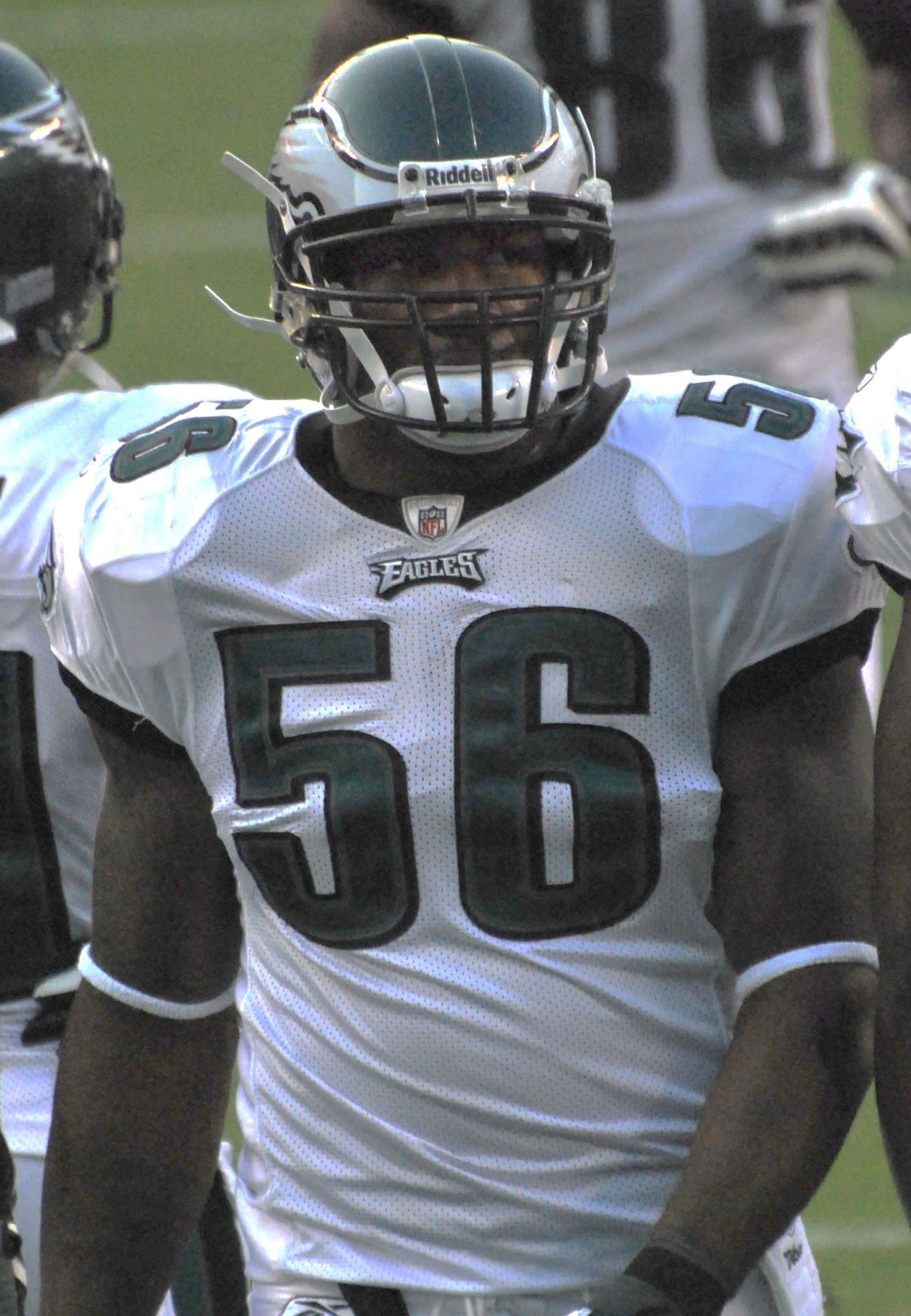 Philadelphia Eagles linebacker Akeem Jordan during a preseason game against the Jacksonville Jaguars in August 2009.